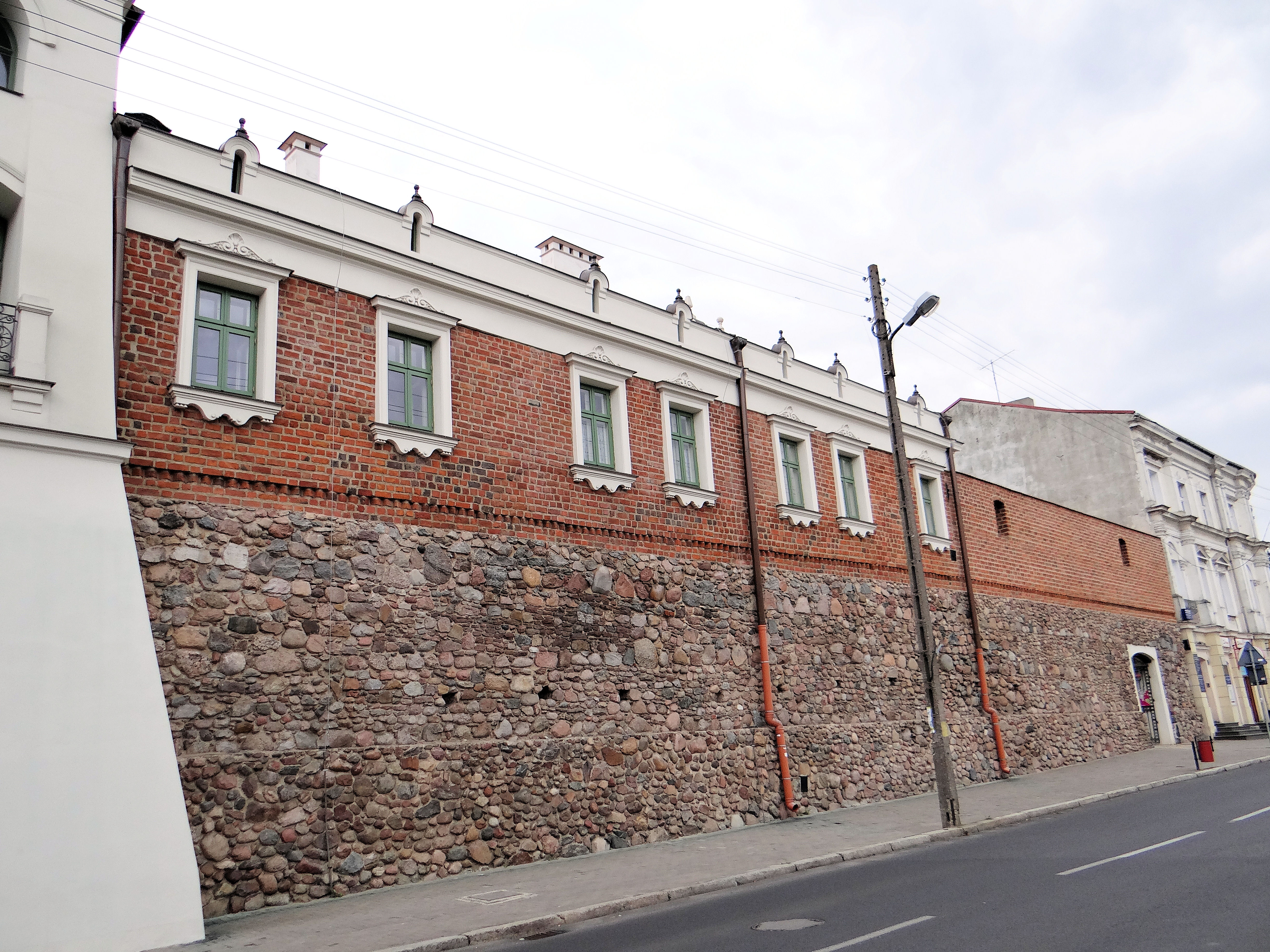 Convent of Dominican nuns in Piotrków Trybunalski